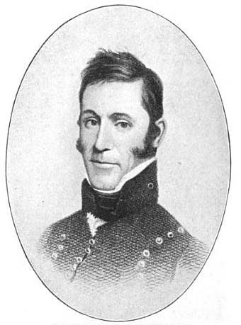 Alden portrayed as Superintendent of the U.S. Military Academy.